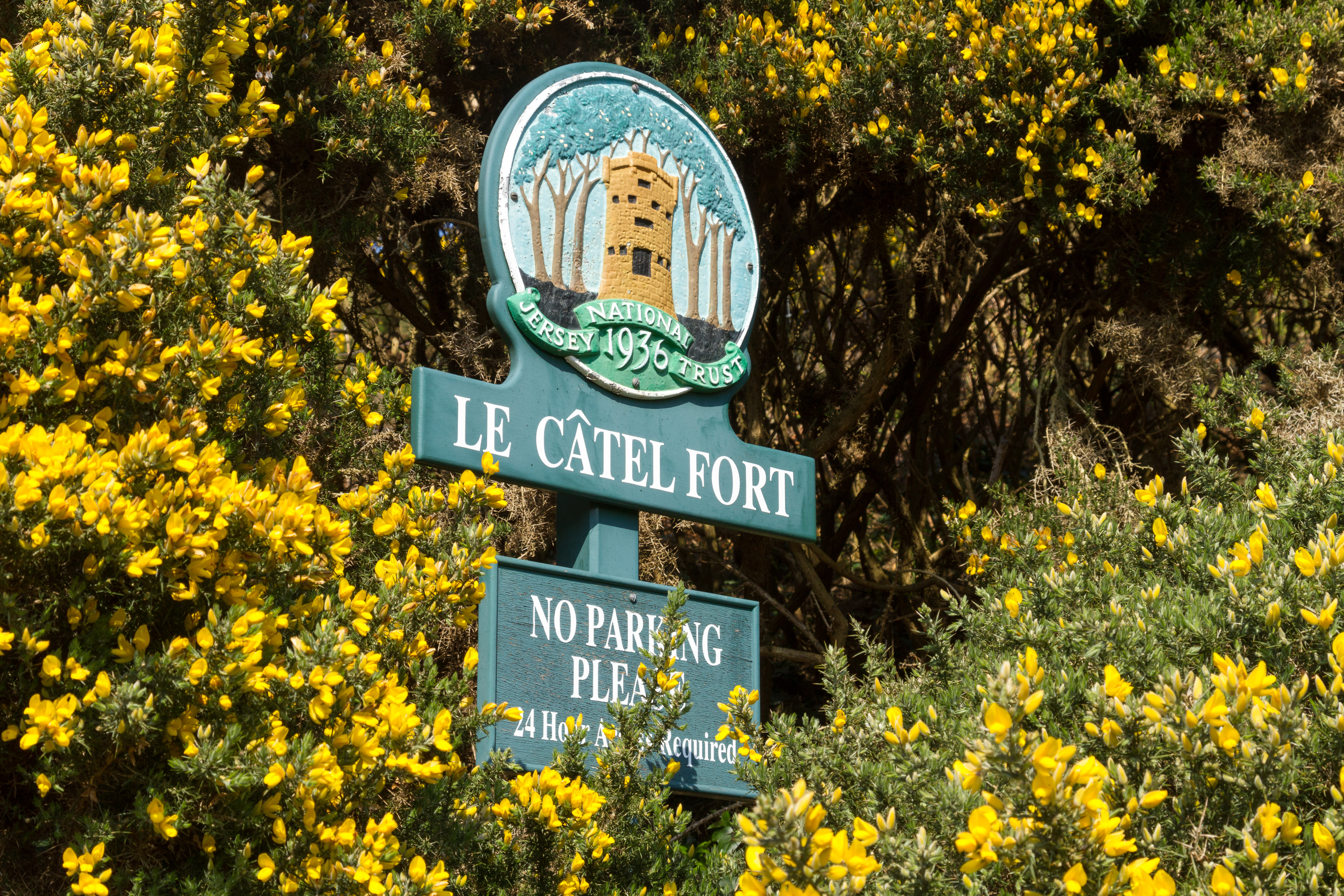 Sign at Le Câtel Fort in Jersey.